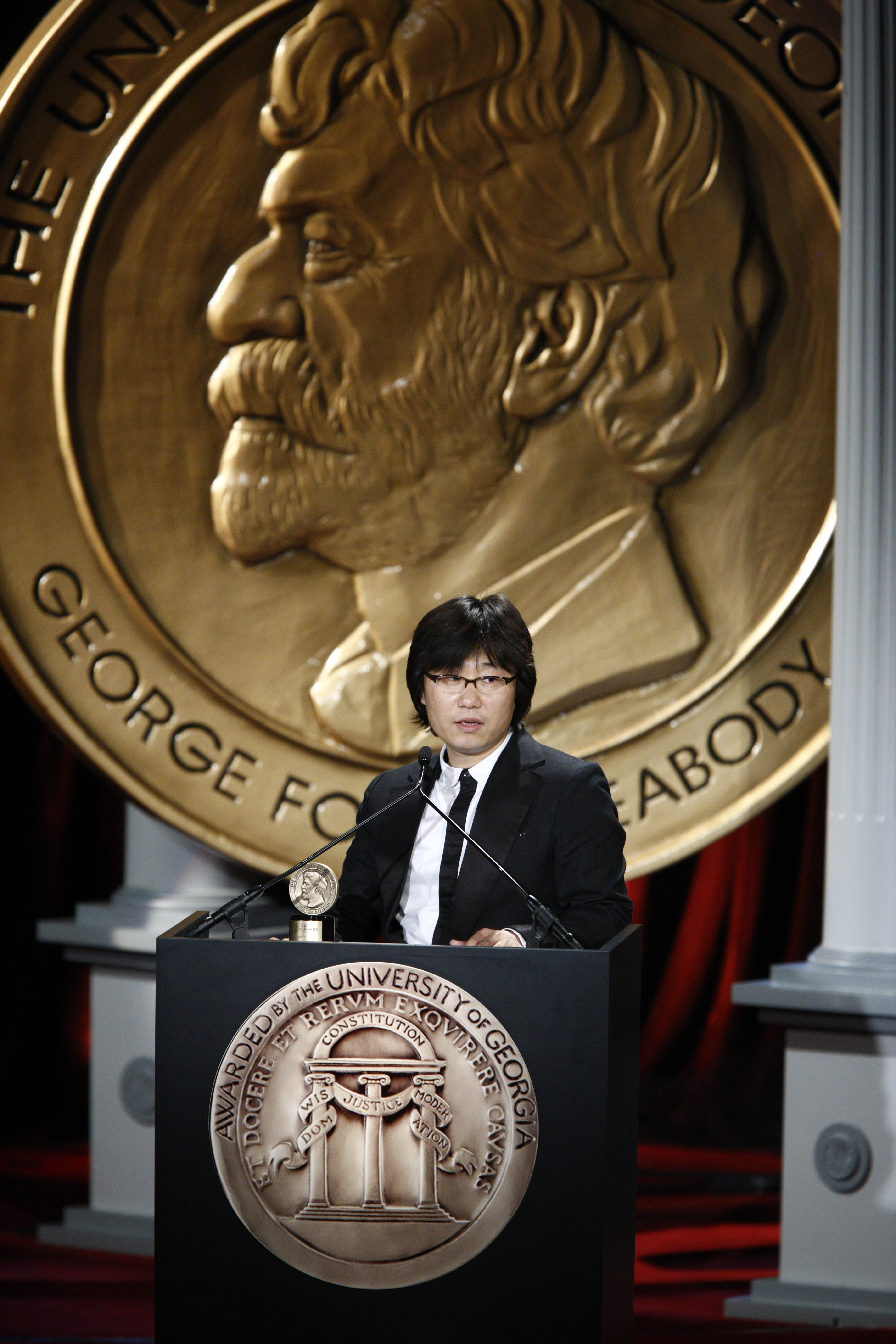 PHOTO CREDIT: ANDERS KRUSBERG / PEABODY AWARDS Jeonghwan Kim 69th Annual Peabody Awards Luncheon Waldorf=Astoria Hotel New York, NY USA May 17, 2010